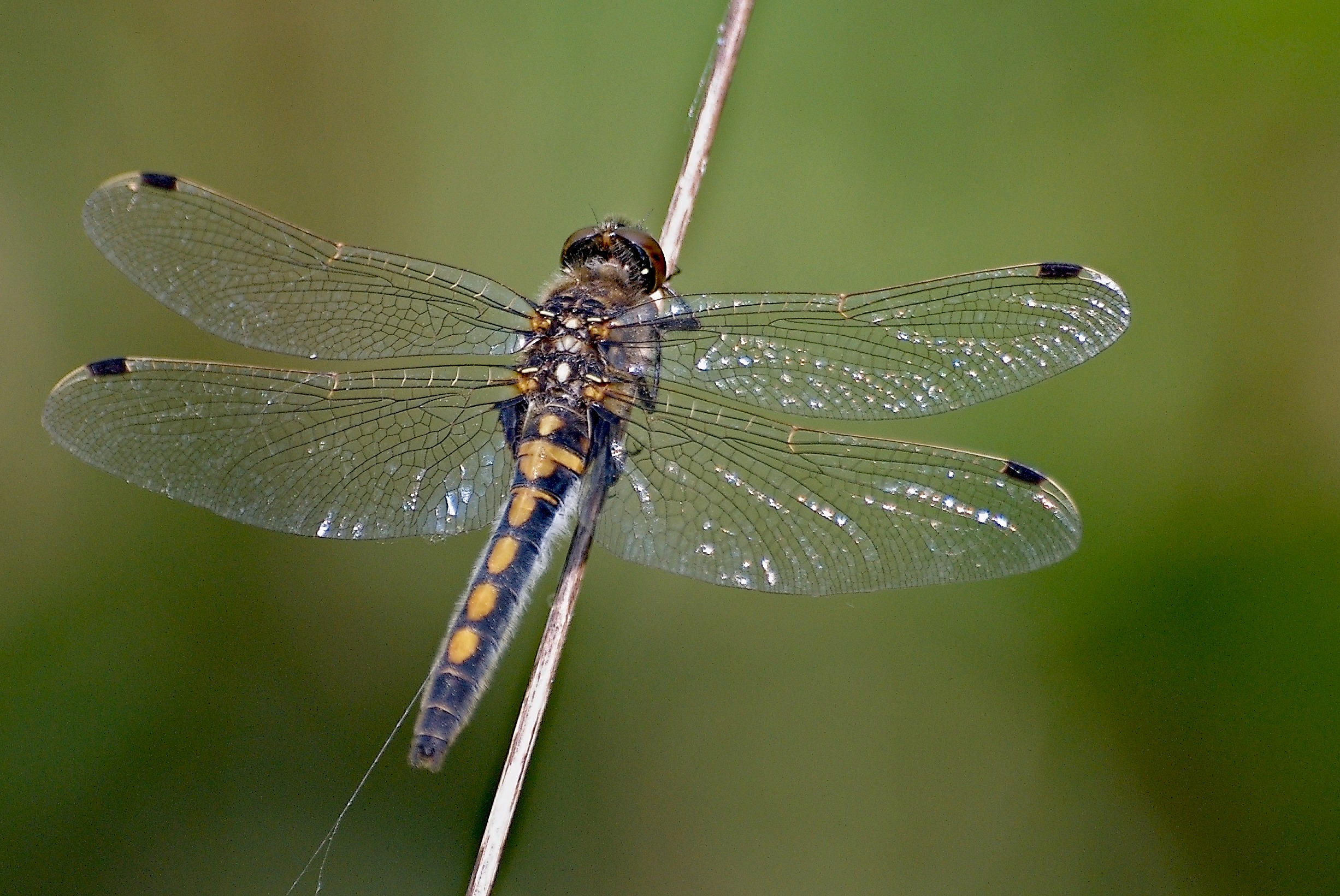 Name: Leucorrhinia rubicunda. Family: Libellulidae. Location: Münster, NRW, Germany